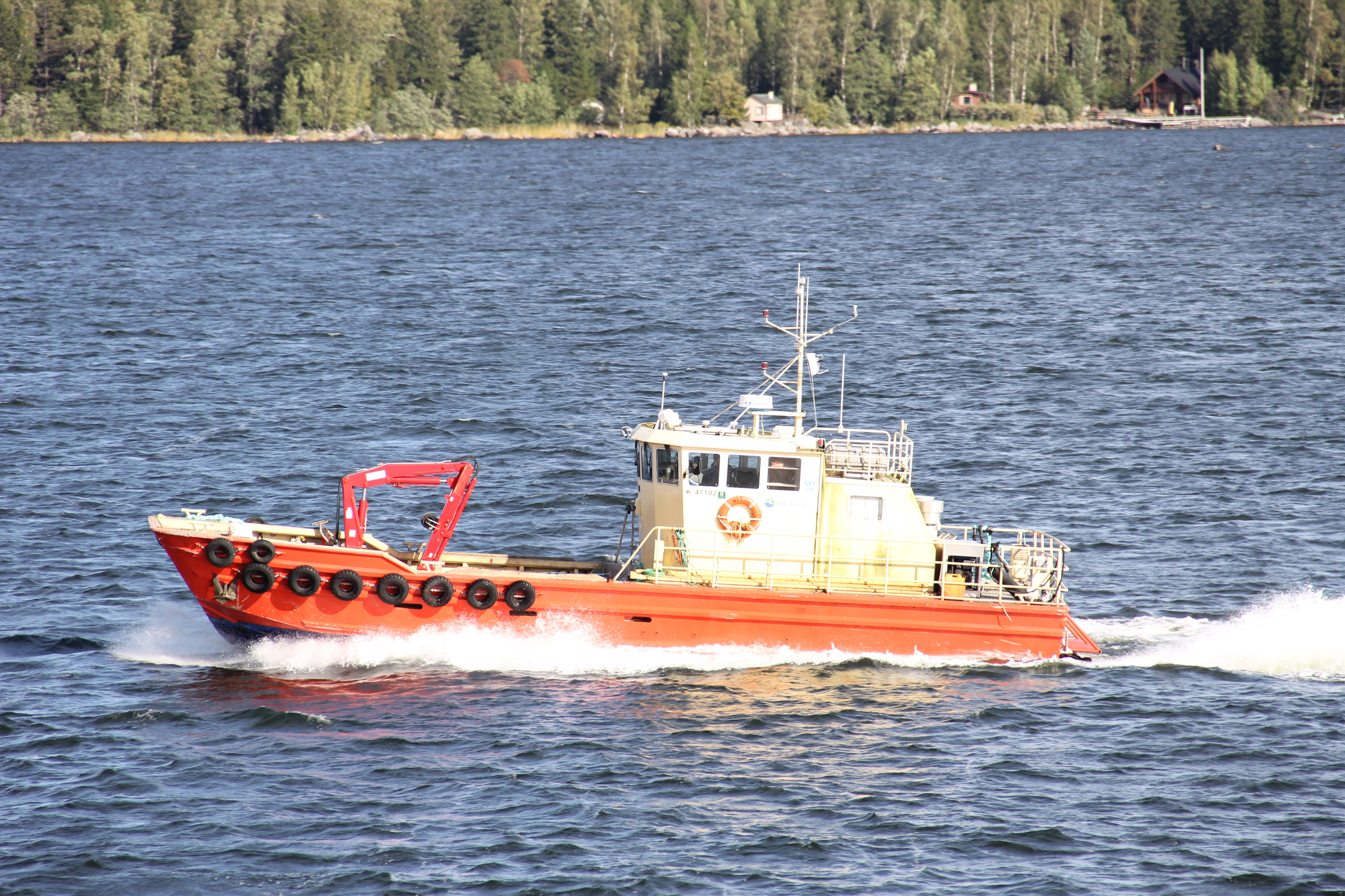 Meritaito MT 3319, a hydraulic engineering vessel outside Vaasa, Finland.